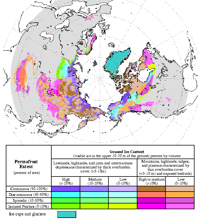 Circum-Arctic Map of Permafrost and Ground Ice Conditions